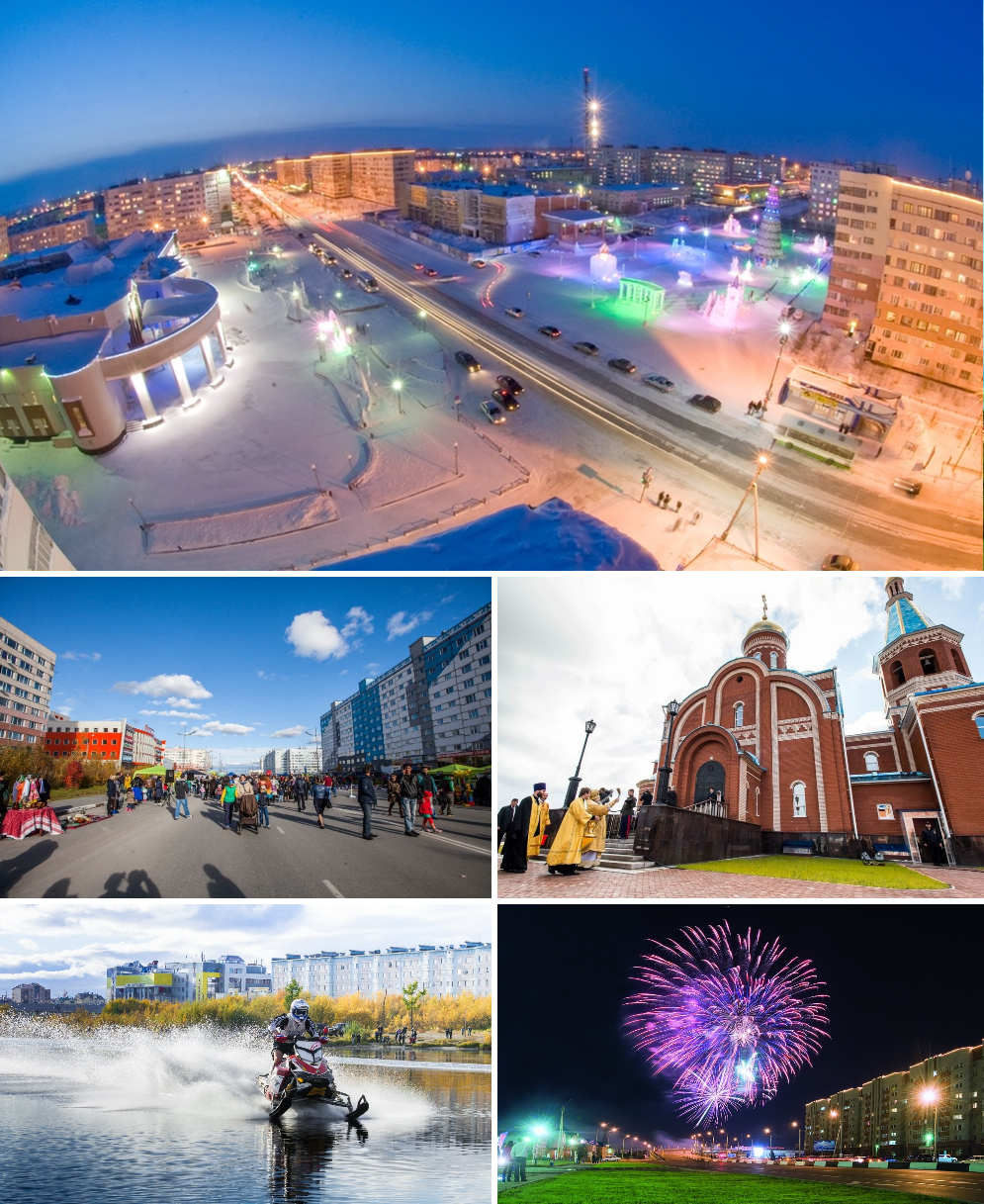 Collage for the article on Novy Urengoy. Counter-clockwise: Central Square, Leningradsky Avenue, Lake Molodezhnoe, Gubkina Avenue, Epiphany Cathedral